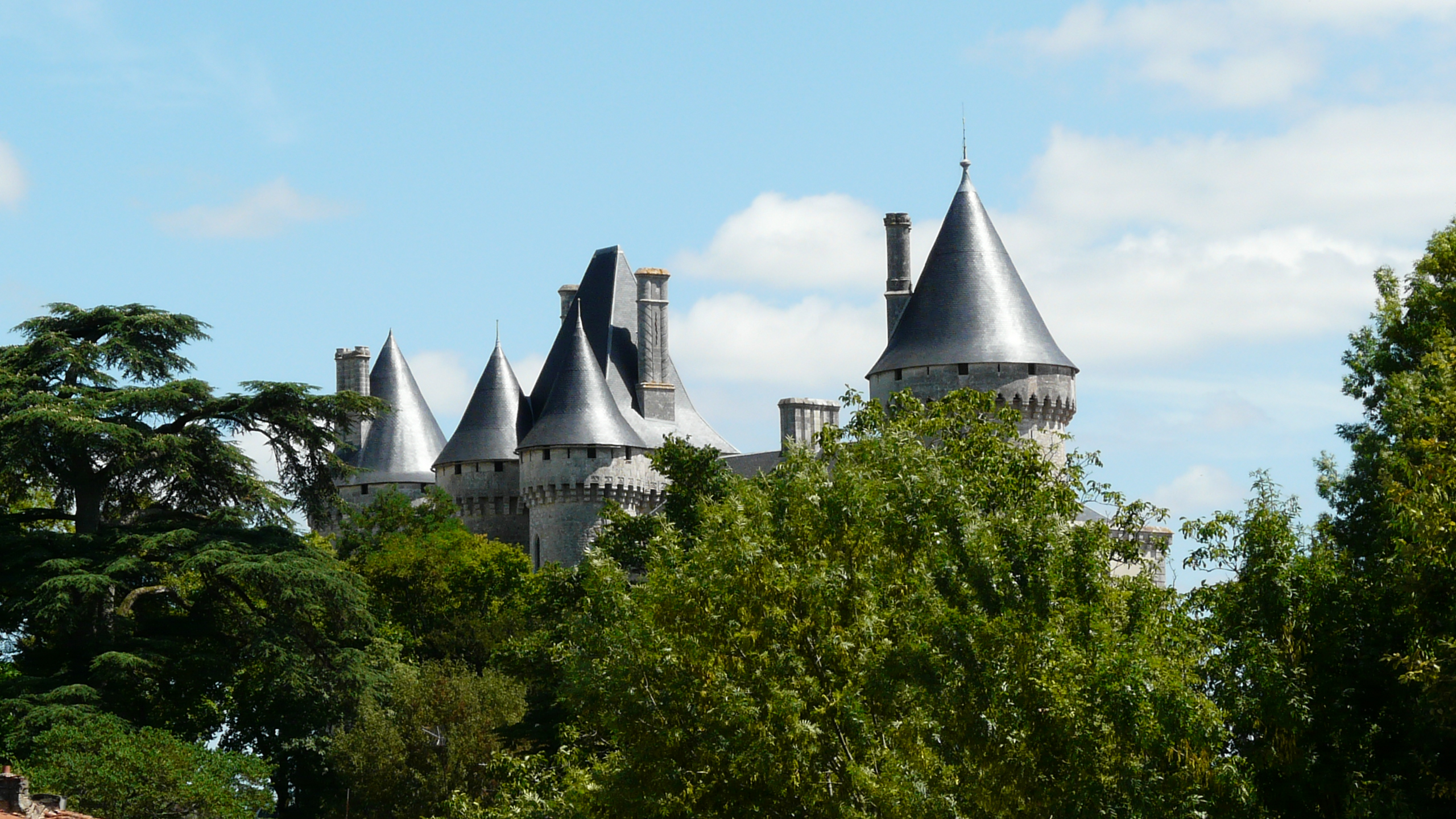 The most beautiful chateau in the charente. .